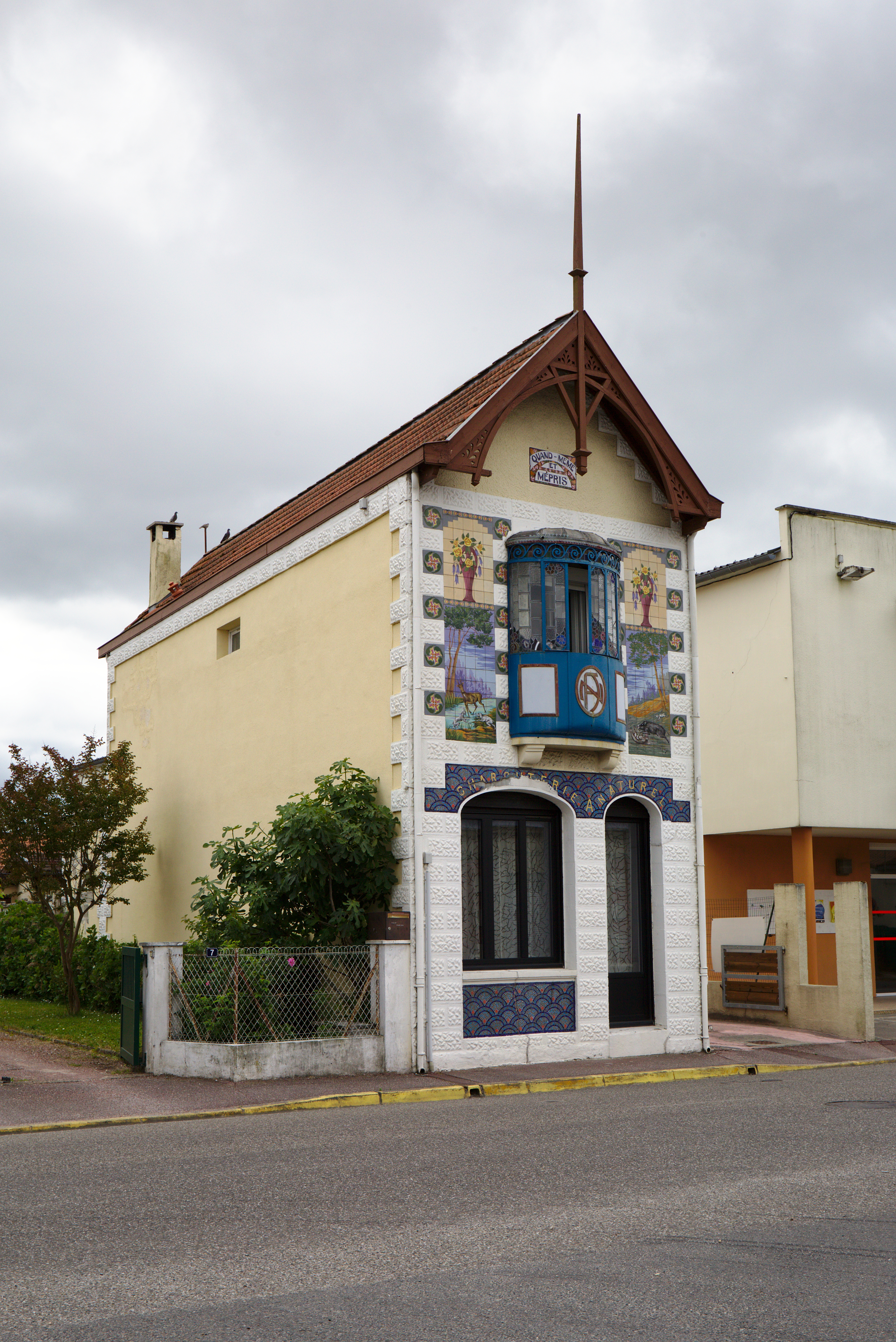 Villa "Quand-même et Mépris"